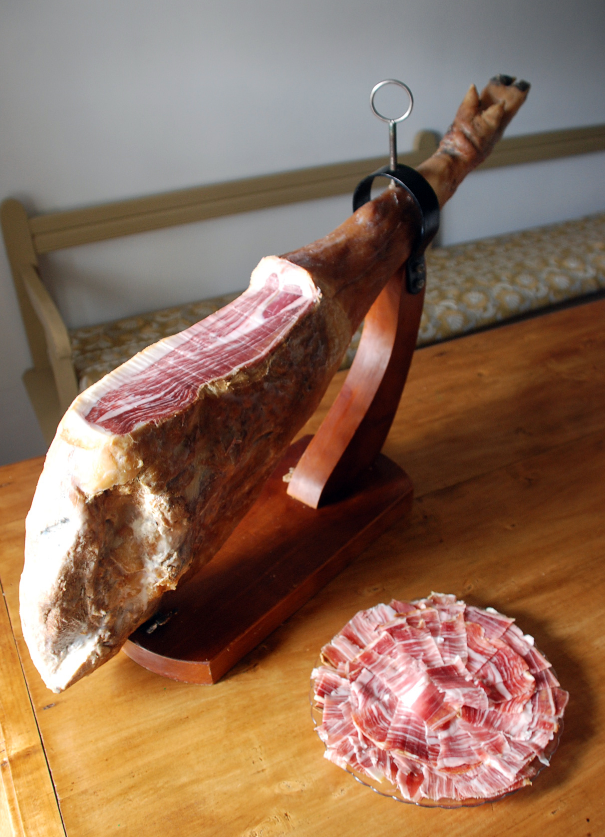 Ham of Guijuelo (Salamanca, Castile and León).